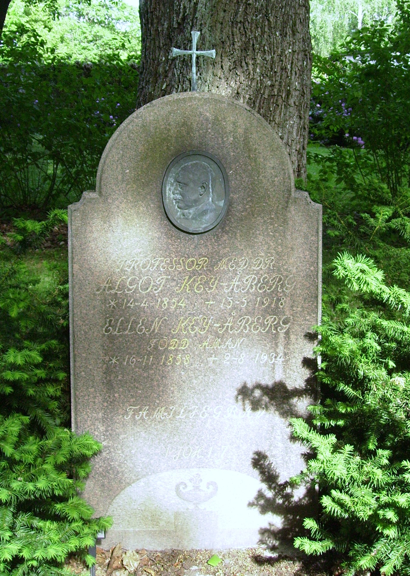 Picture of Algot Key-Åbergs grave at Norra begravningsplatsen in Solna